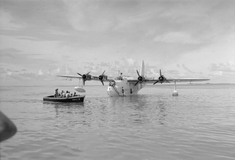 Royal Air Force Operations in the Far East, 1941-1945 A tender conveys aircrew to Short Sunderland Mark III, EJ143 ‘S’, of No. 230 Squadron RAF Detachment, moored in the lagoon at Addu Atoll, Maldive Islands.